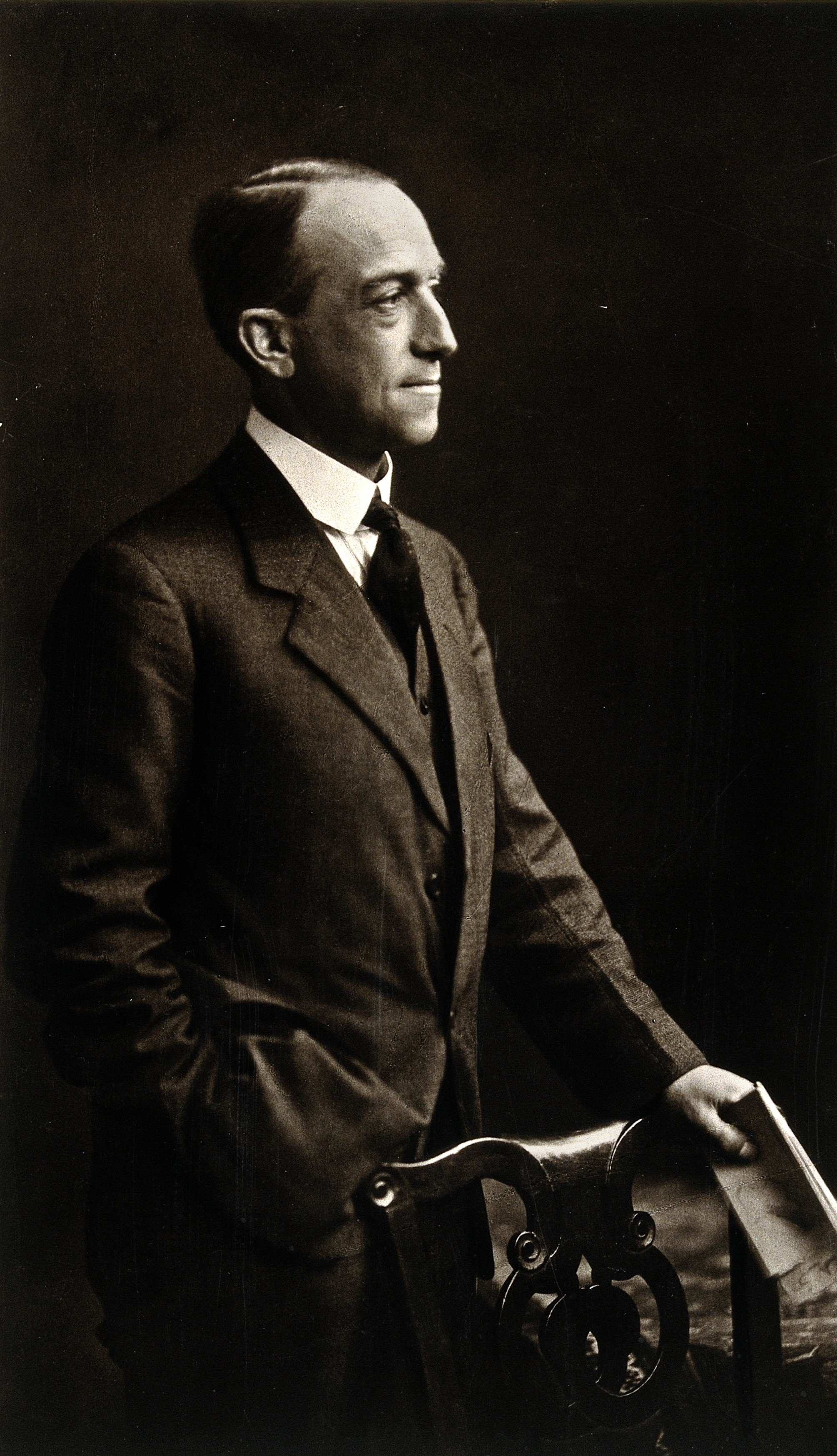 David Percival Dalbreck Wilkie. Photograph. Iconographic Collections Keywords: portrait photographs